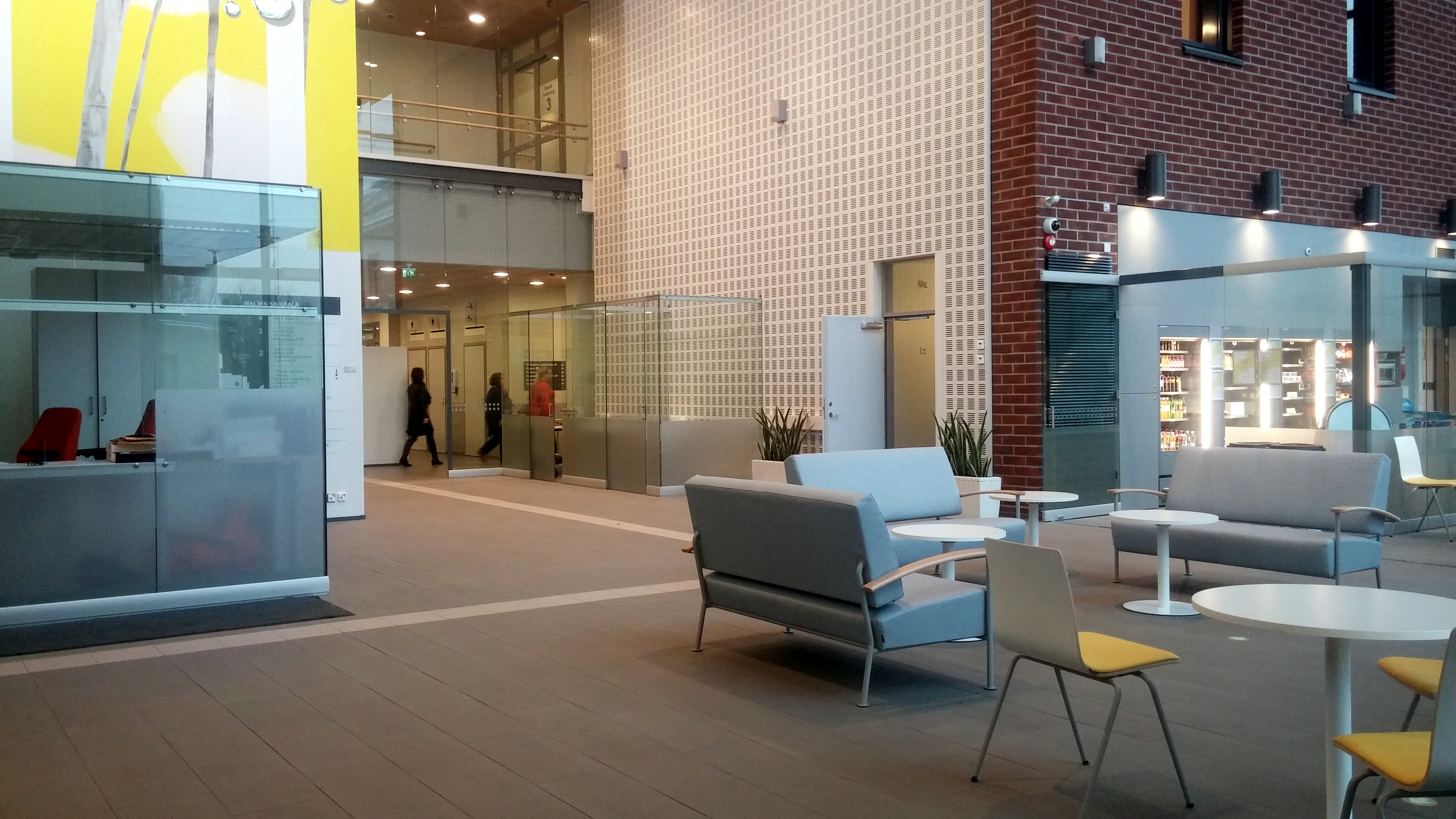 Malmin sairaala is a hospital in Helsinki, Finland.